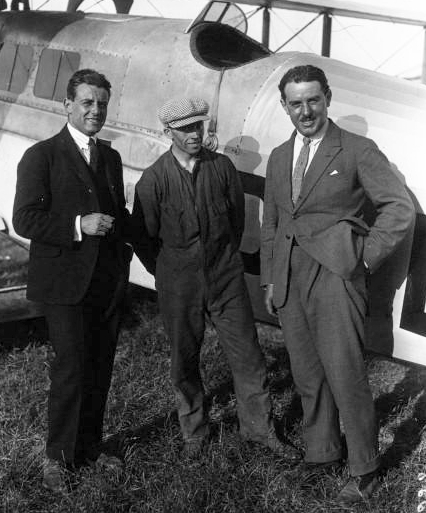 French aviators Albert Deullin (1890-1923) (left) and Gustave Douchy (1893-1943) (right) with flight engineer Vacher (centre).